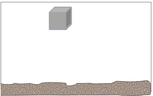 a microsoft word drawing